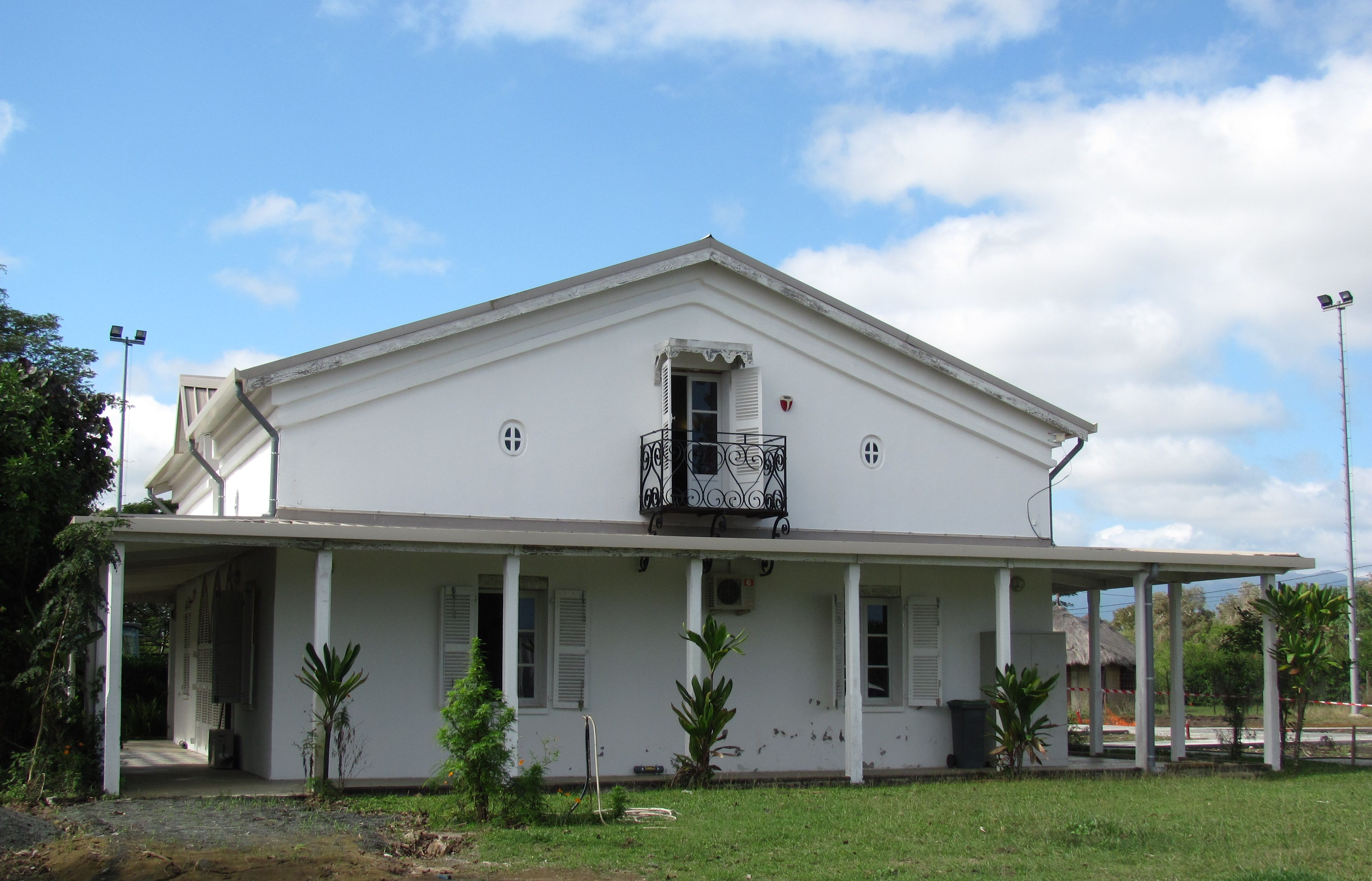 Cultural Center, Koné, New Caledonia